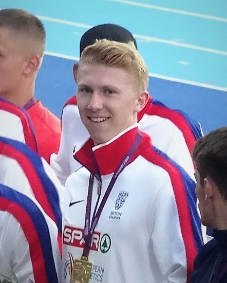 2017 European Athletics U23 Championships, 4x400m relay men medal ceremony